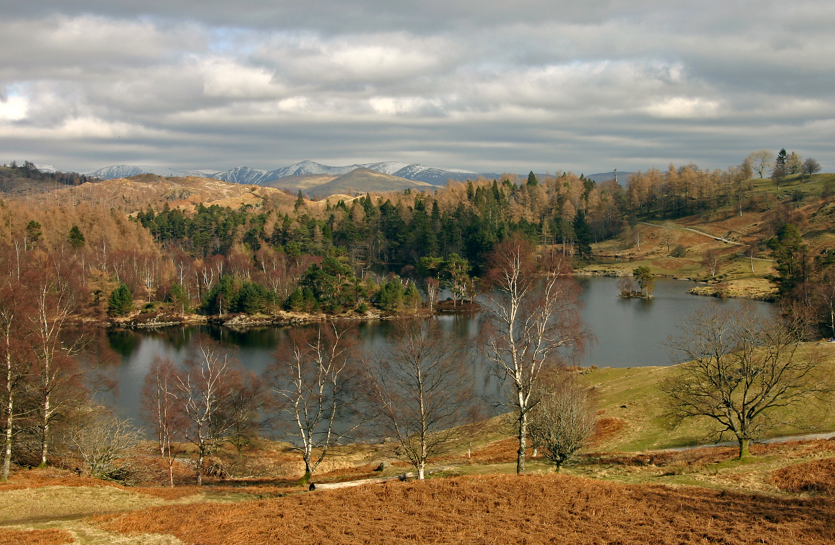 Author: Mark S Jobling